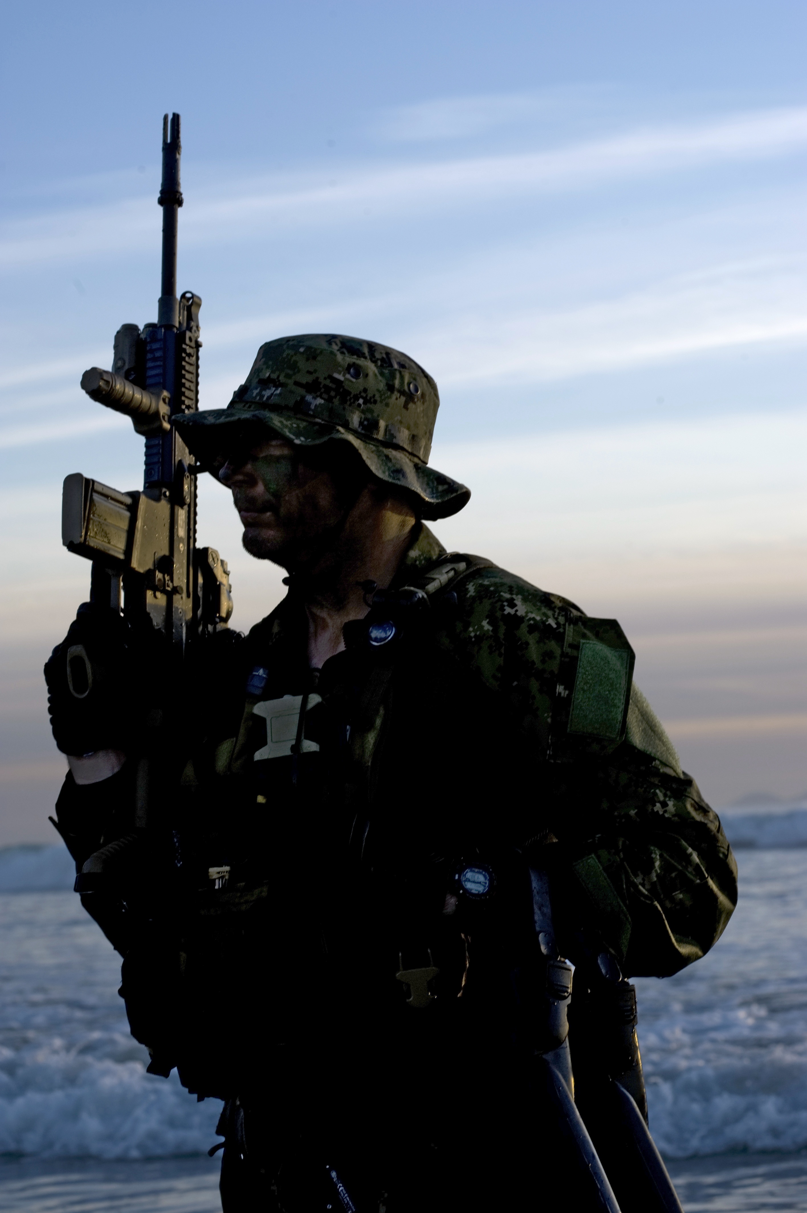 120109-N-OT964- California (09 Jan. 2012) Navy SEALs conduct training on land and in water. U.S. Navy photo by Mass Communication Specialist 2nd Class Martin L. Carey